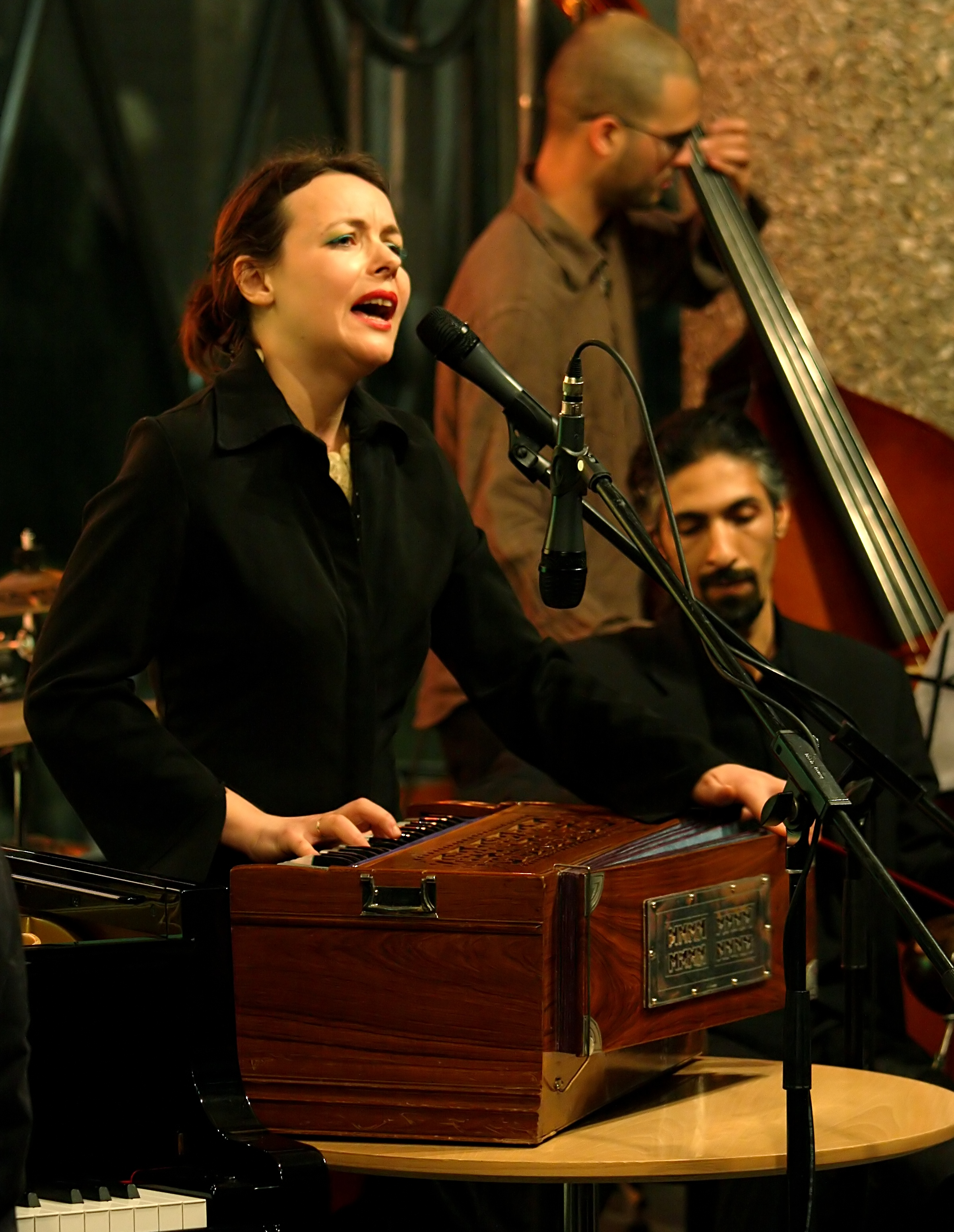 Mariana Sadovska with the group "Borderland". Performance at the "Domforum", Cologne, Germany